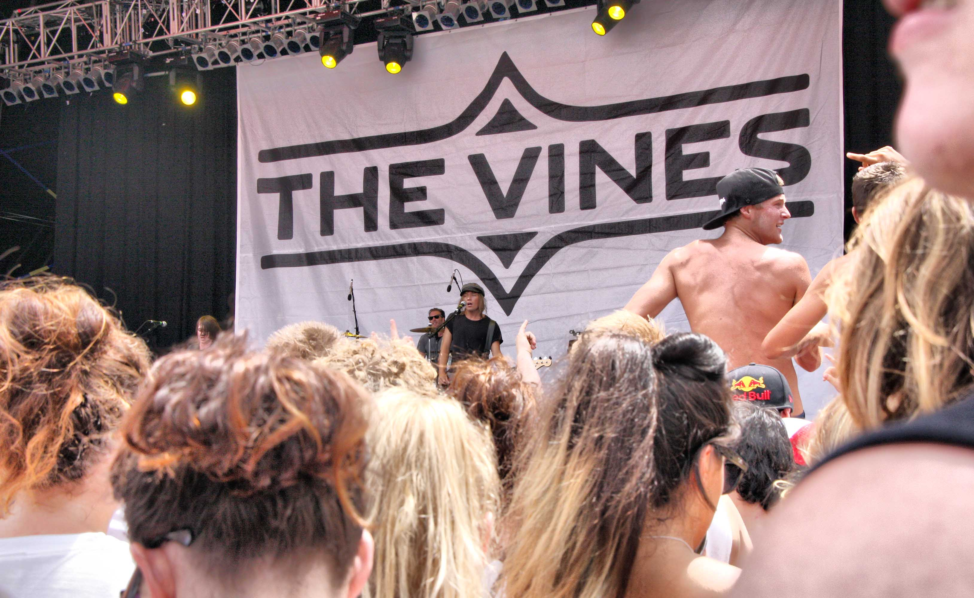 The Vines at Sydney Big Day Out, 2011